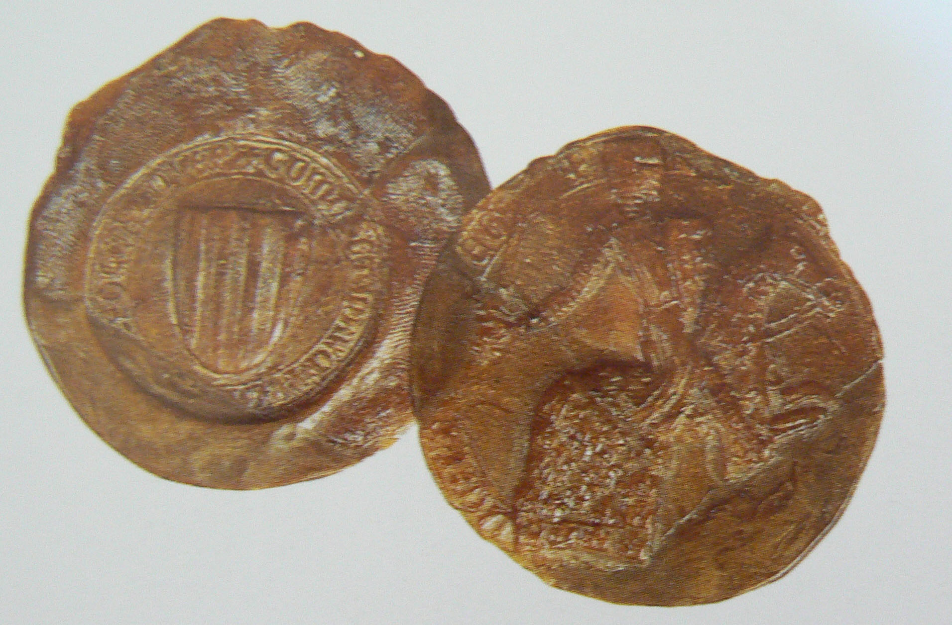 Seals of Raimond Berenger IV., Count of Provence